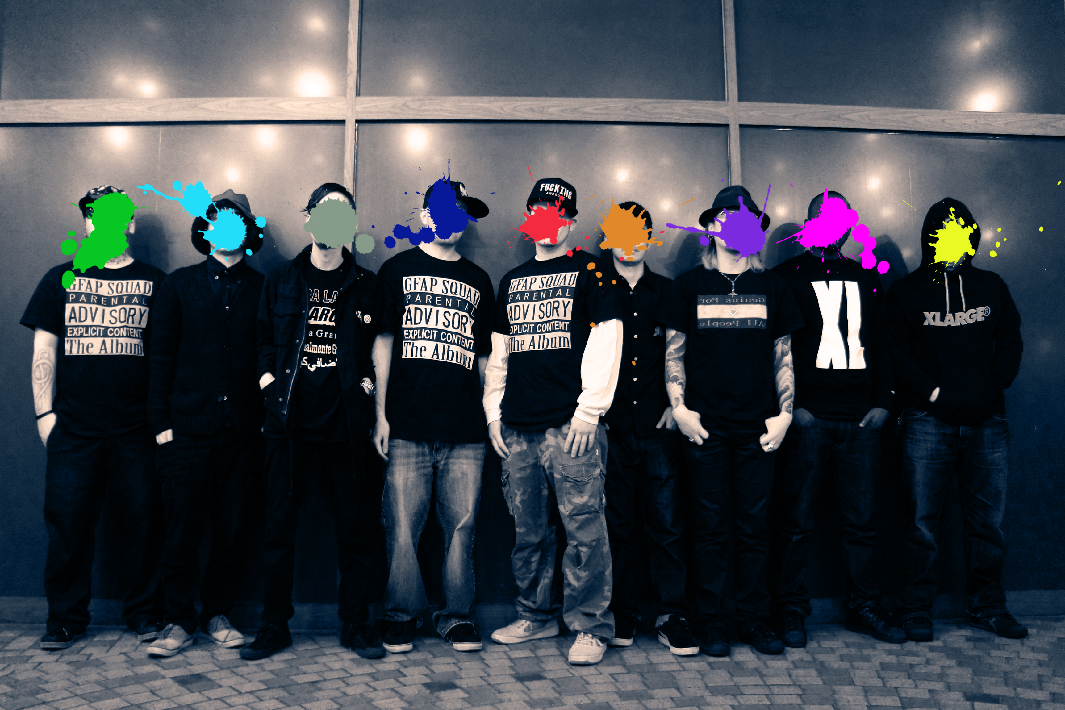 Artist Photo